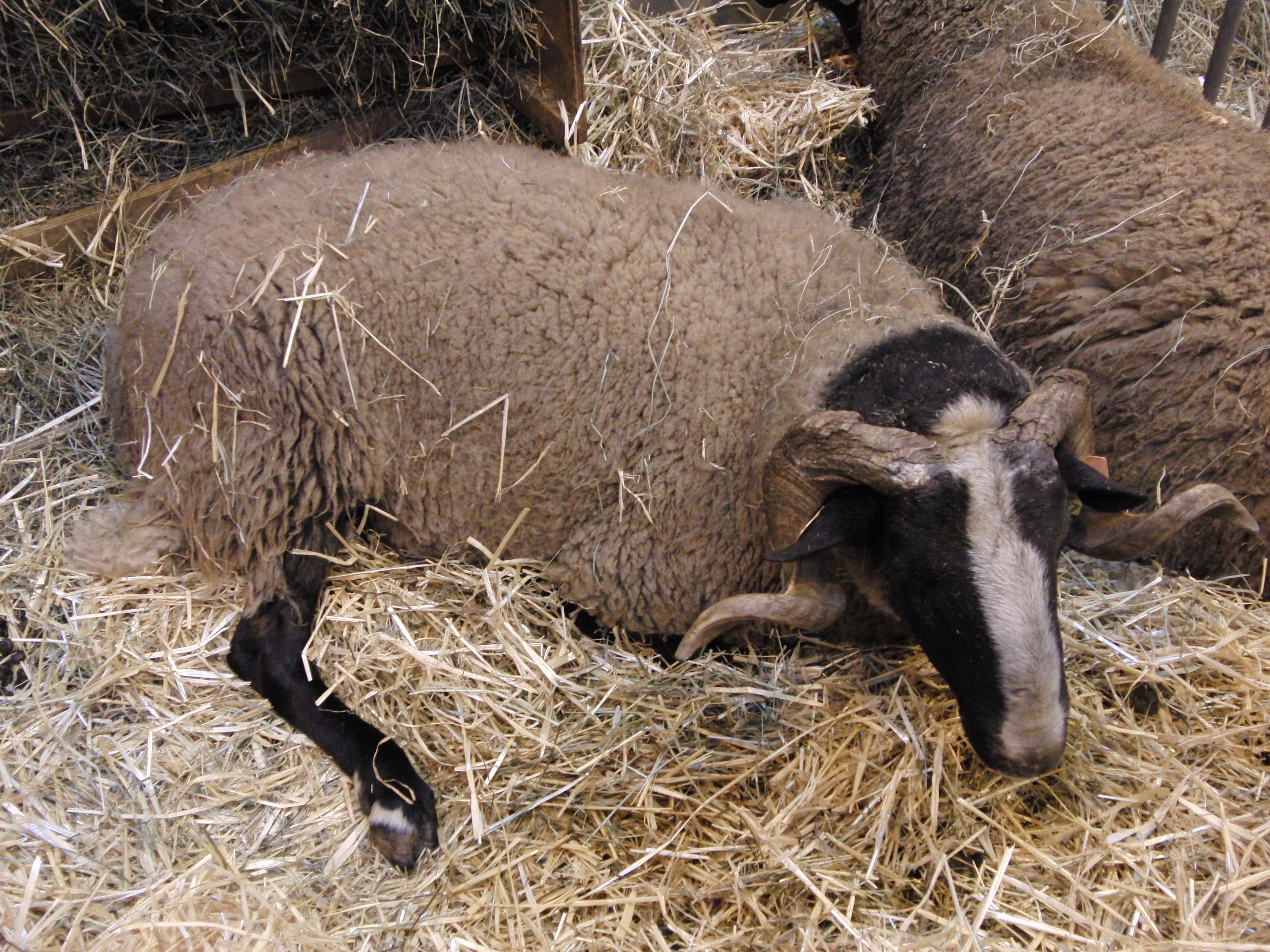 Bizet sheep - Salon international de l'agriculture 2011, Paris, France